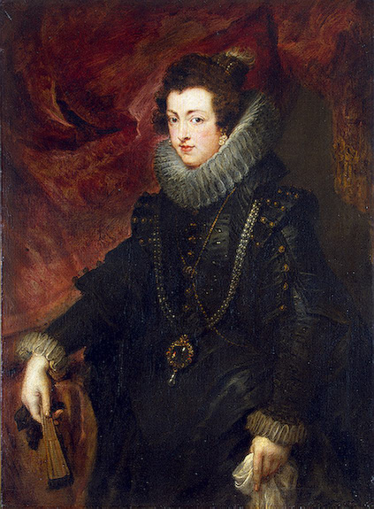 Pendant of File:Felipe4 hermitage.jpg